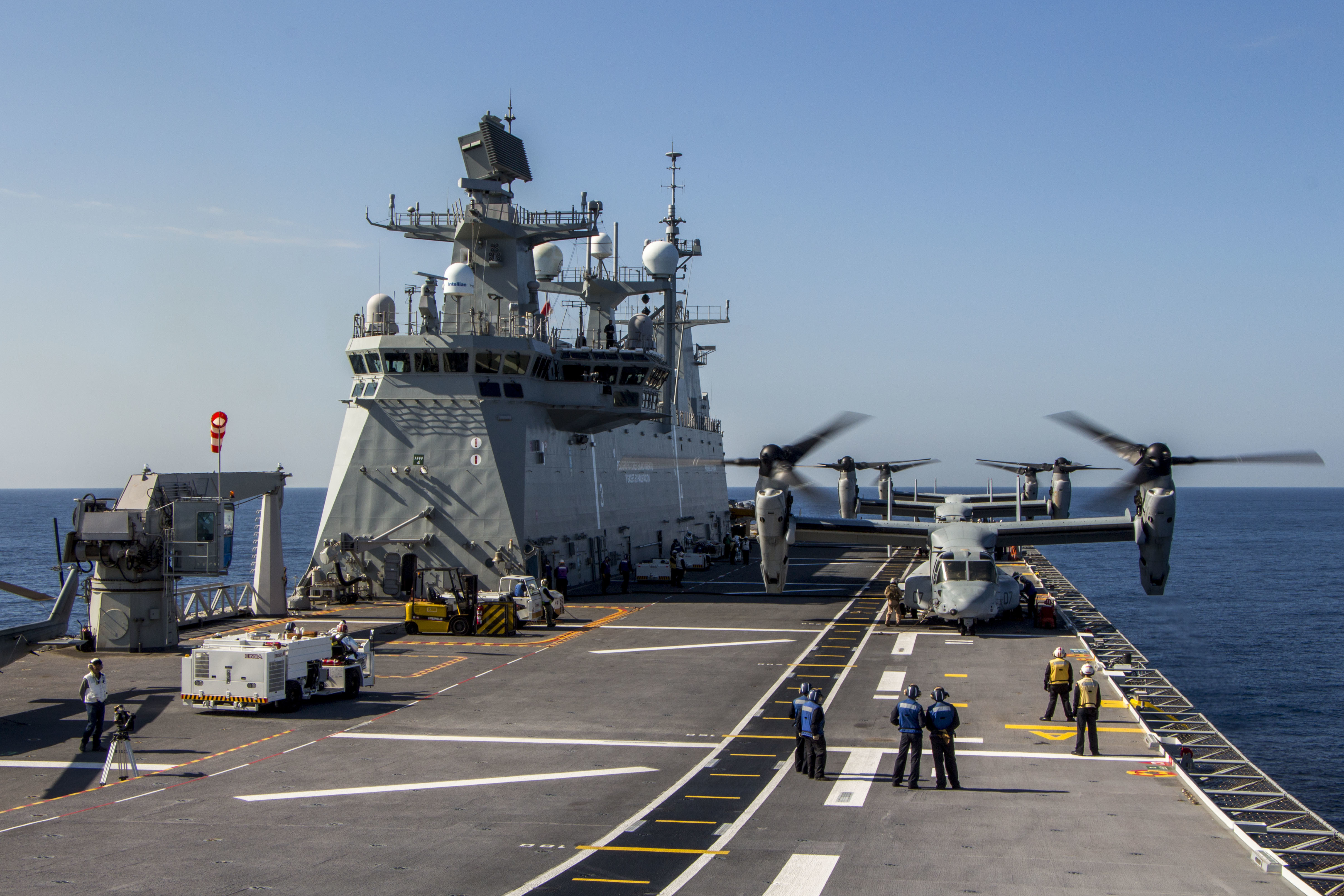 Three MV-22B Ospreys with Special-Purpose Marine Air-Ground Task Force Crisis Response-Africa participate in deck landing qualifications aboard a Spanish amphibious assault ship Juan Carlos I (L61) on the southern coast of Spain, Oct. 21. U.S. Marines and Spanish sailors practice deck procedures including tie-downs, taxiing and refueling the aircraft. (U.S. Marine Corps photo by Staff Sgt. Vitaliy Rusavskiy)